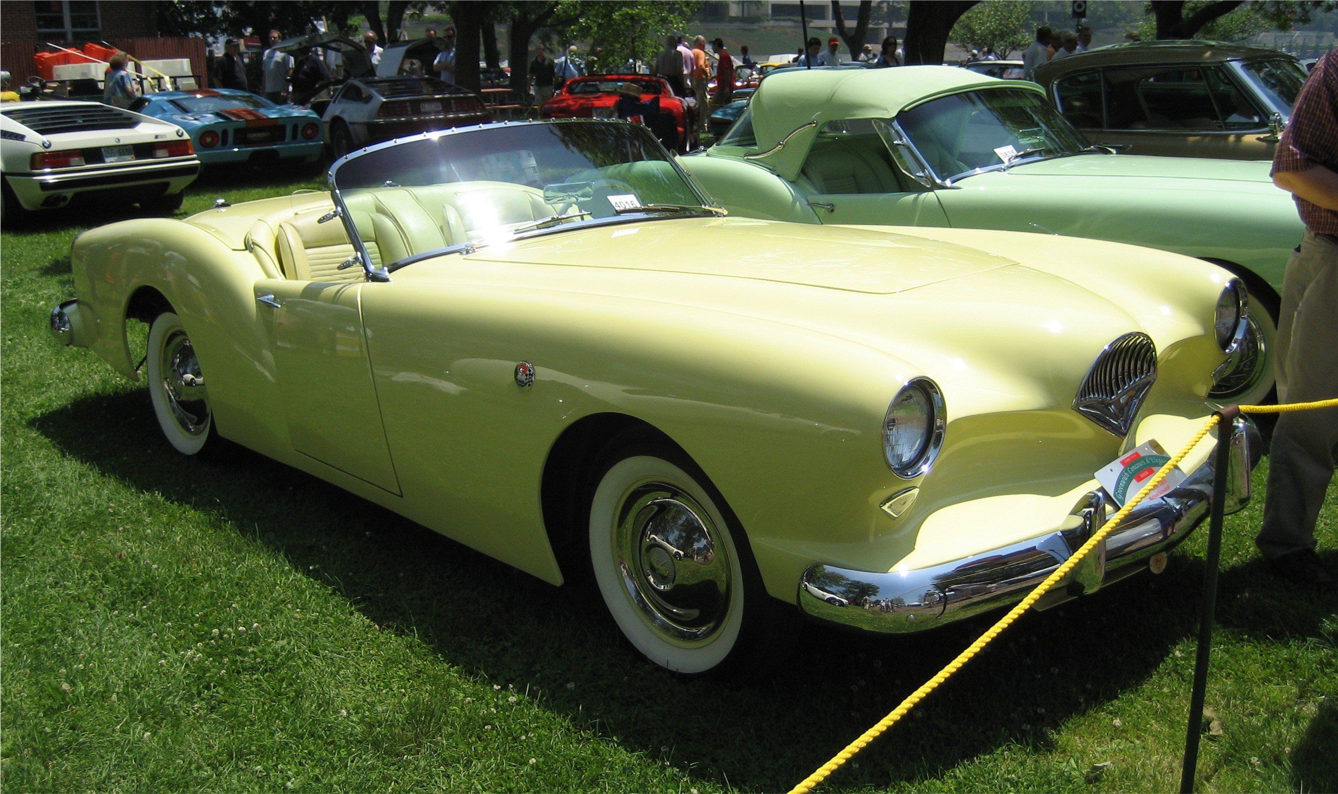 1954 Kaiser Darrin convertible photographed at the 2008 Greenwich Concours d'Elegance in Greenwich, Connecticut.